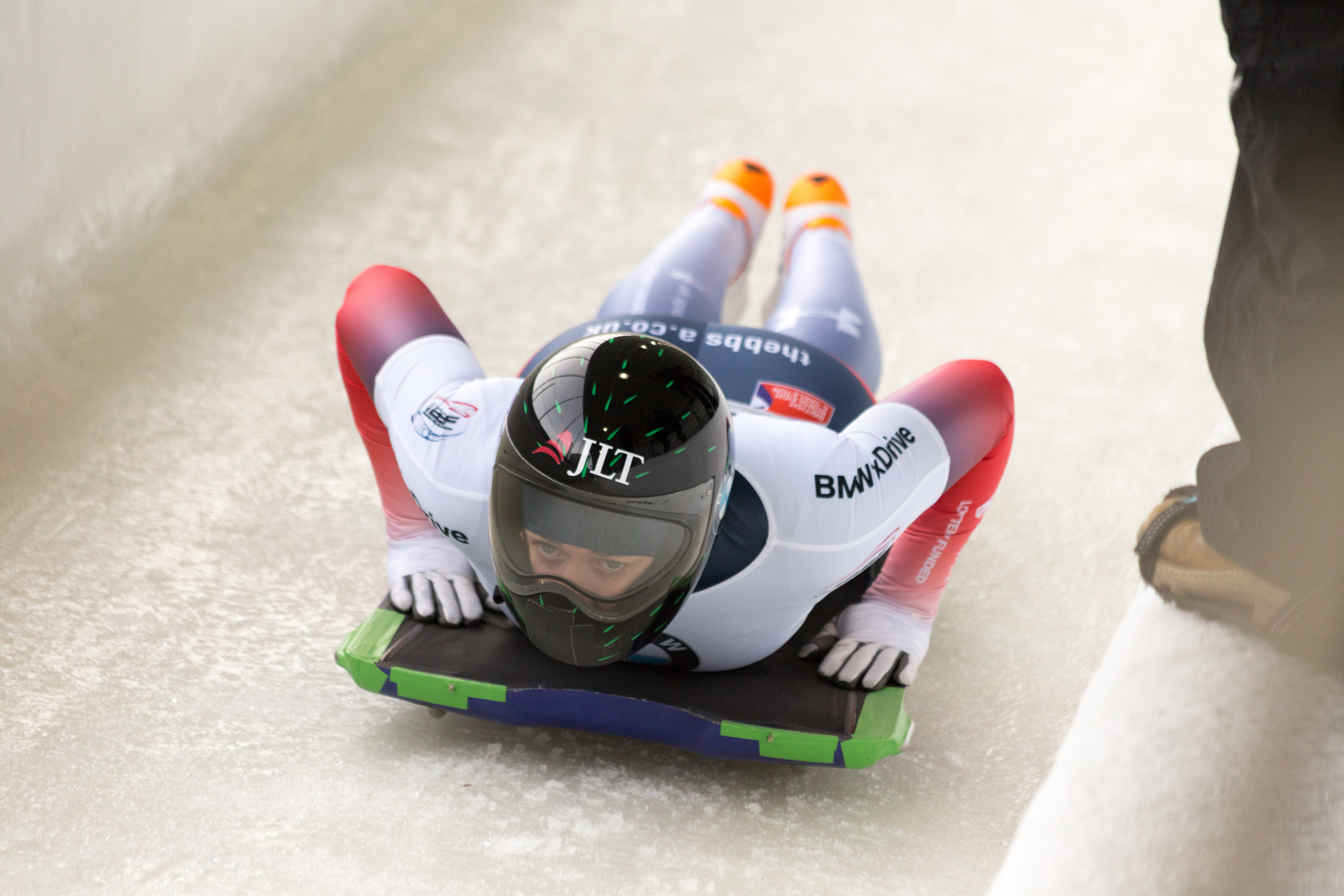 British skeleton athlete Lizzy Yarnold slides into the finish area after her second run at the 2017/2018 BMW IBSF World Cup race in Lake Placid. She earned a bronze medal with a combined time of 1:50.46.